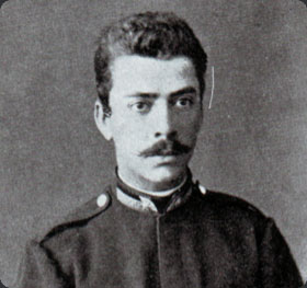 Photograph of Croatian artist Bela Čikoš Sesija (1864-1931)